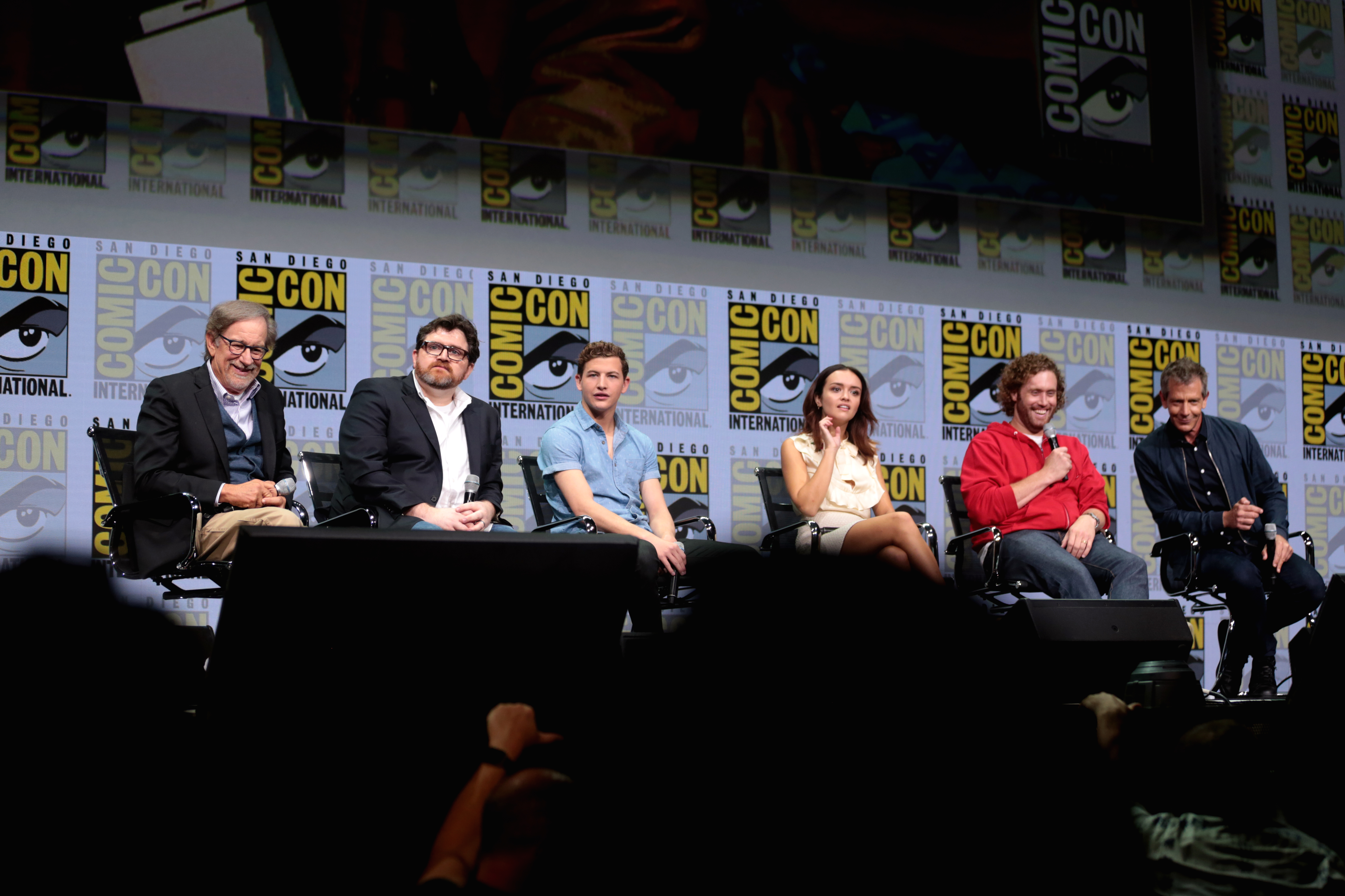 Steven Spielberg, Ernest Cline, Tye Sheridan, Olivia Cooke, T.J. Miller and Ben Mendelsohn speaking at the 2017 San Diego Comic Con International, for "Ready Player One", at the San Diego Convention Center in San Diego, California.